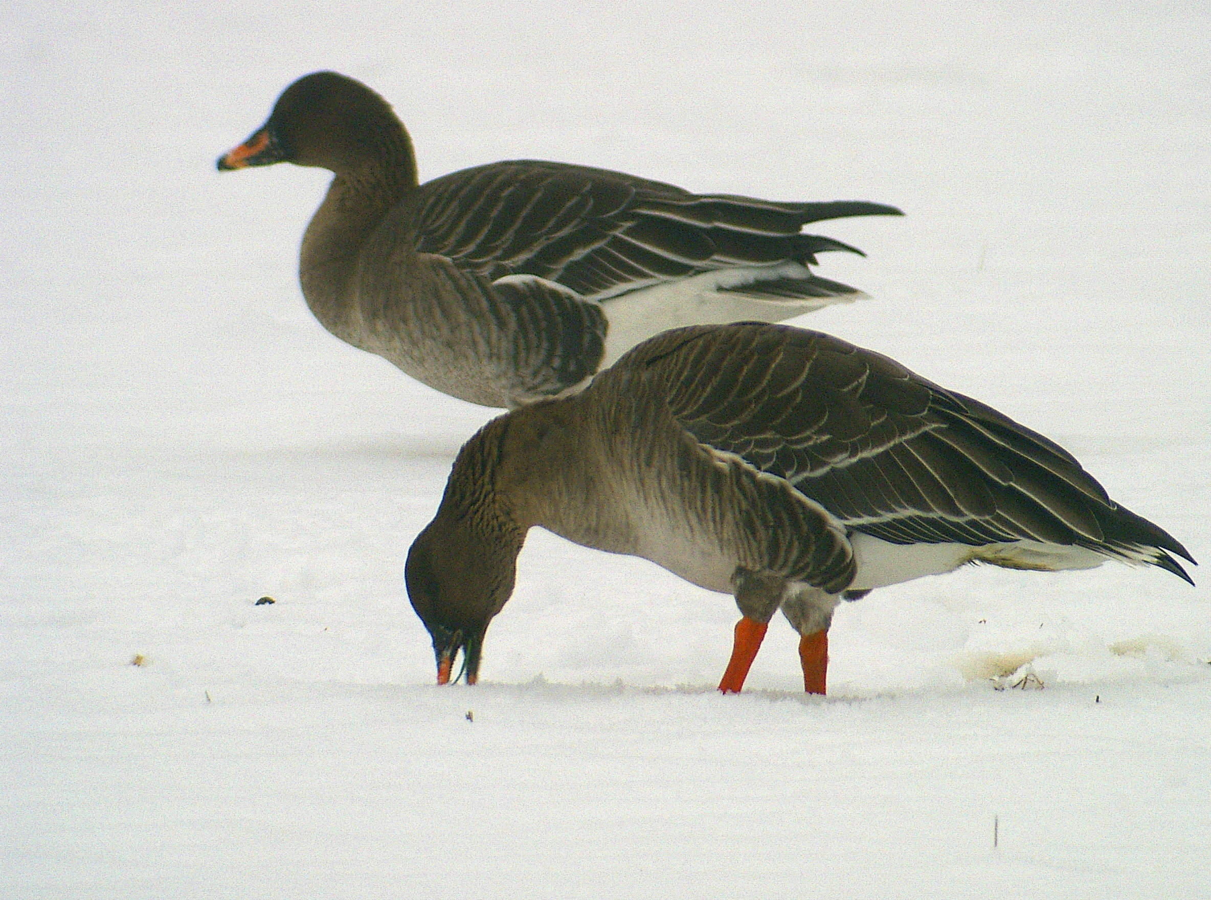 Anser serrirostris rossicus, Billdal, Vastra Gotaland, Sweden